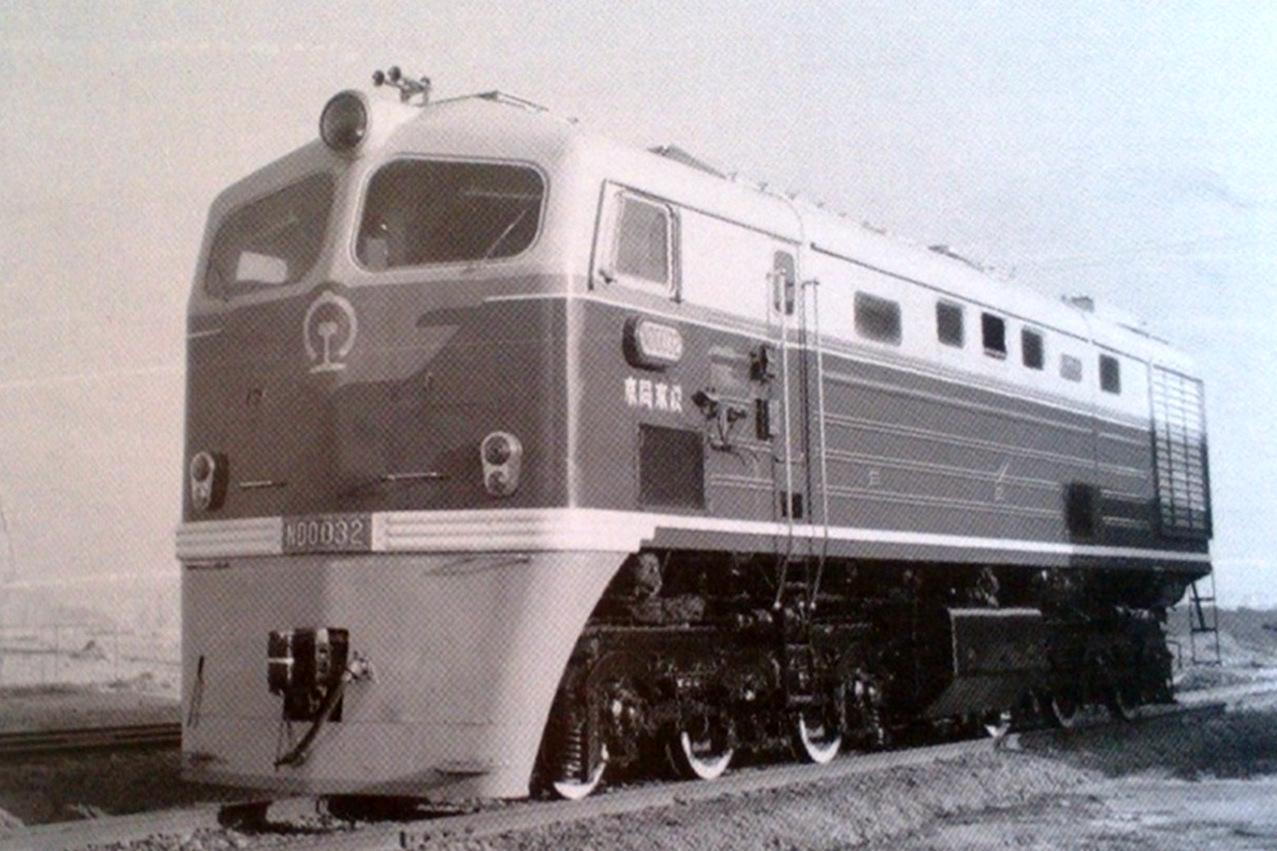 The only China Railways ND diesel locomotive produced by Datong Locomotive Works in 1965.